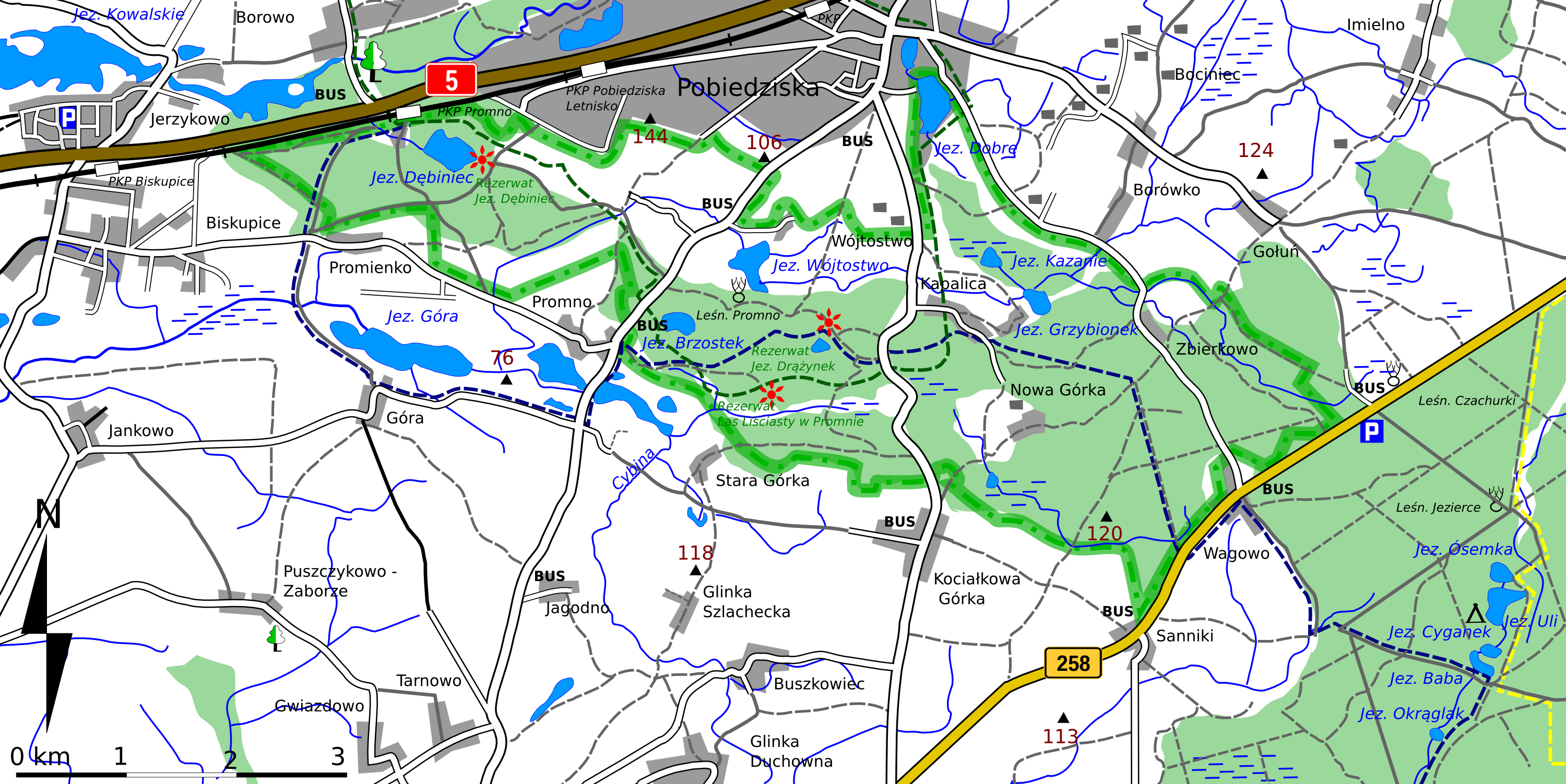 Promno Landscape Park